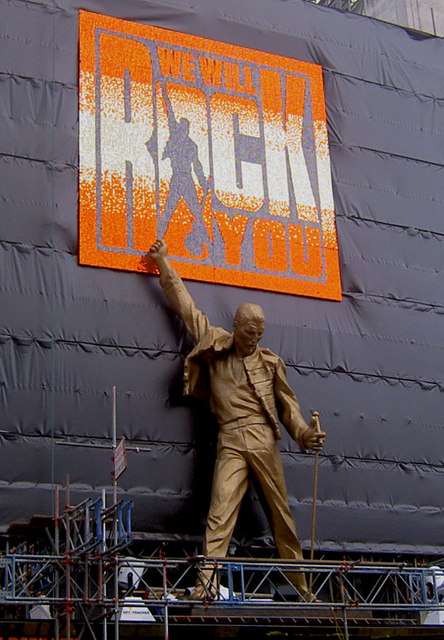 Freddie Mercury We will rock you, musical tribute to Freddie and Queen at the Dominion theatre London.